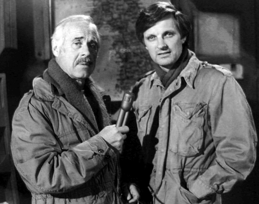 Photo of Alan Alda as Hawkeye and Clete Roberts as a television reporter from the US who has come to Korea to do a piece on the war. He decides to interview Hawkeye as part of the assignment.